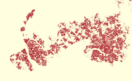 Liverpool-Manchester Combined Urban Area